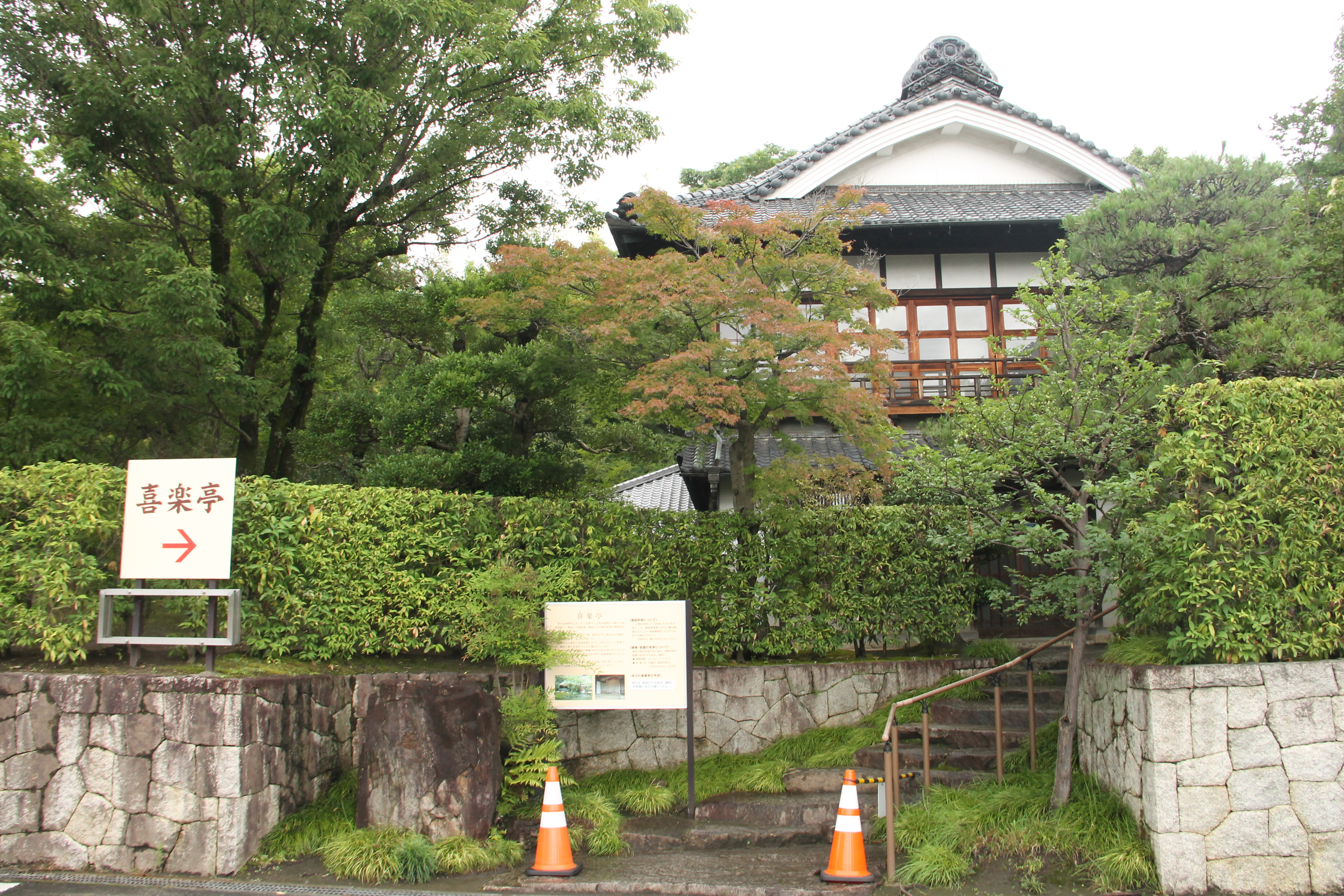 Relocated Kirakutei, located in Toyota Industry Culture Center in Kozaka-hon-machi, Toyota, Aichi Prefecture